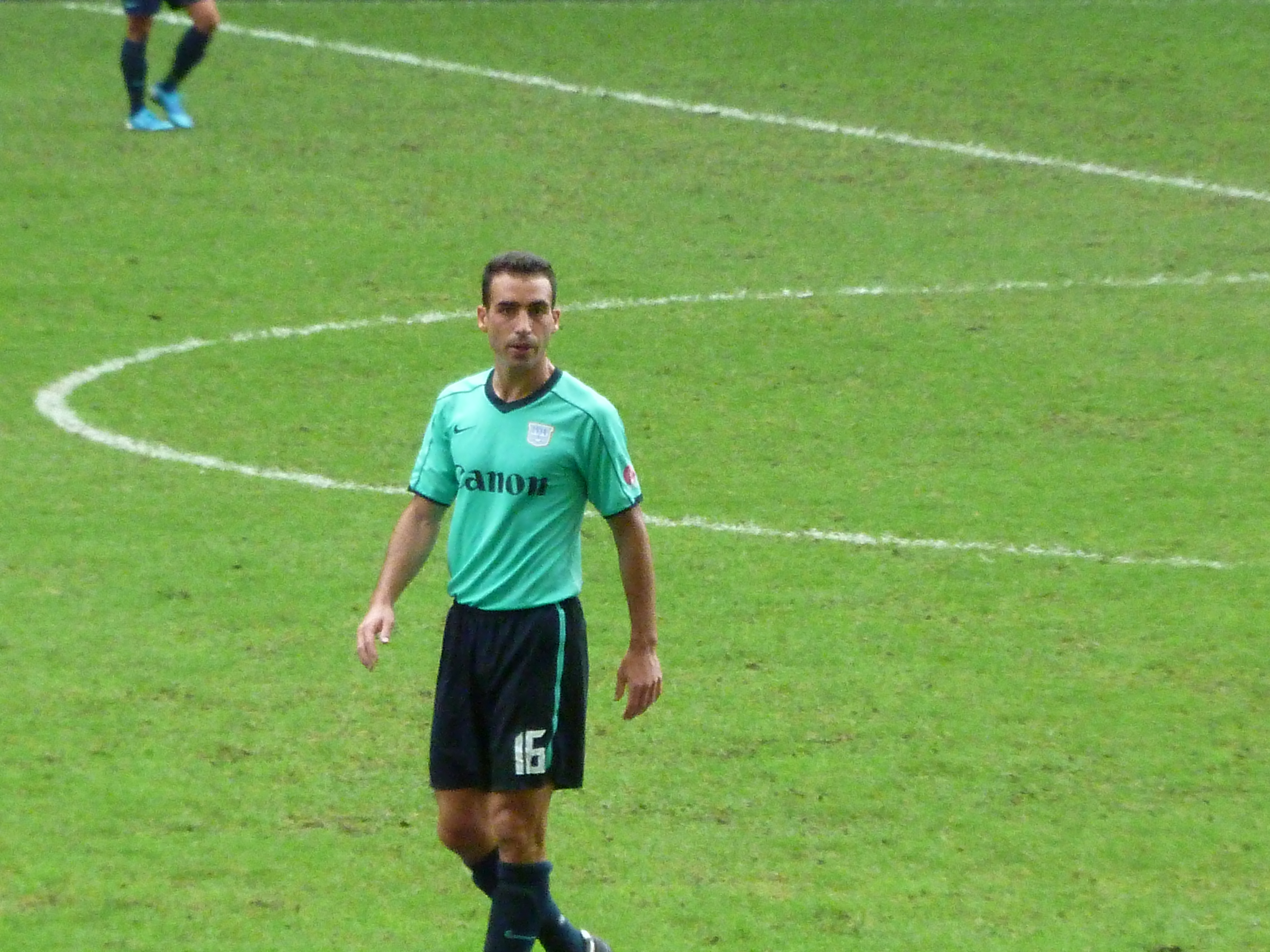 Jose Maria Diaz Munoz (26 May 2012 Hong Kong FA Cup final, Kitchee vs TSW Pegasus, Hong Kong Stadium)